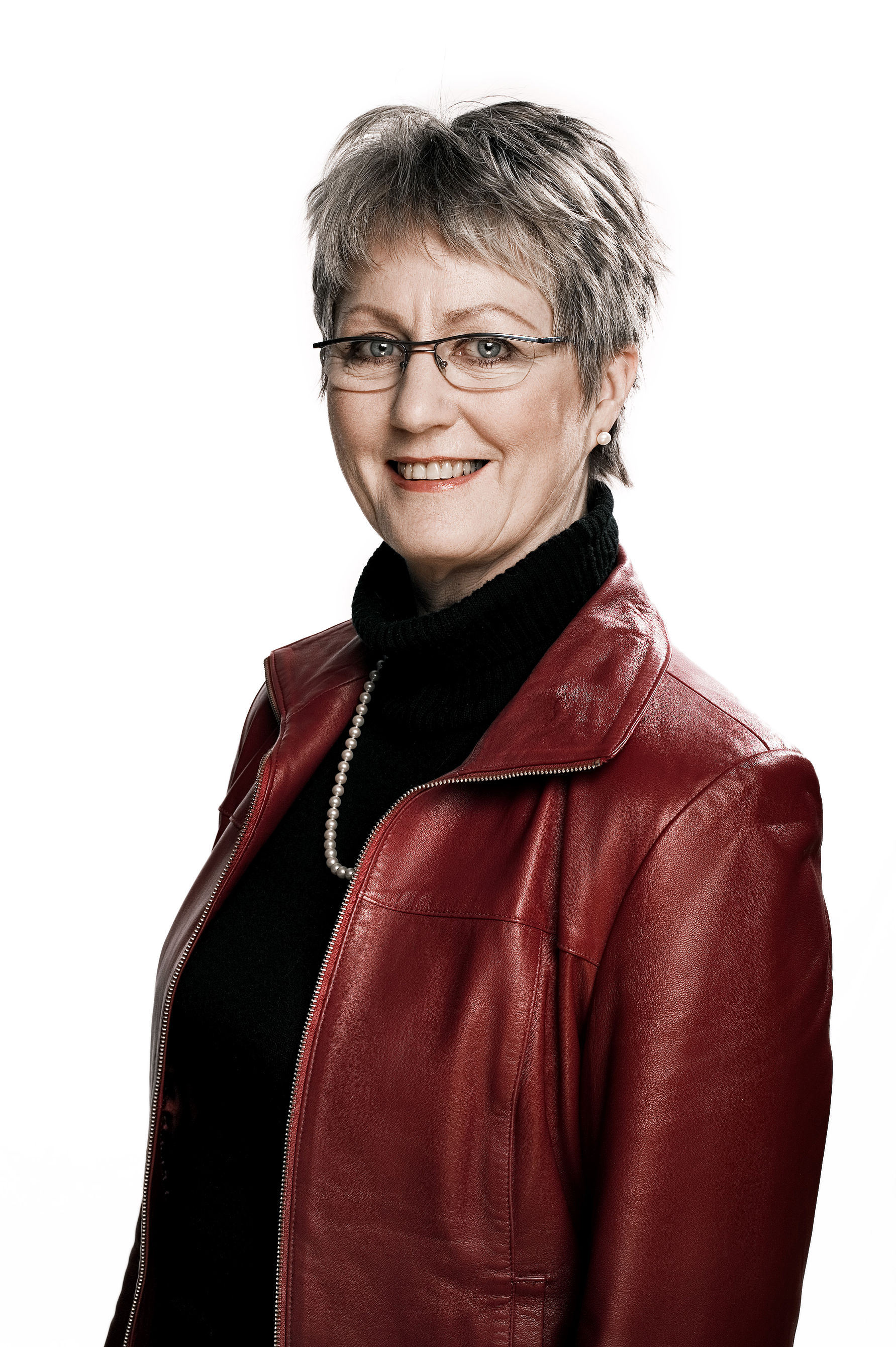 Þuríður Backman, MP of the Icleandic Left-Green movement